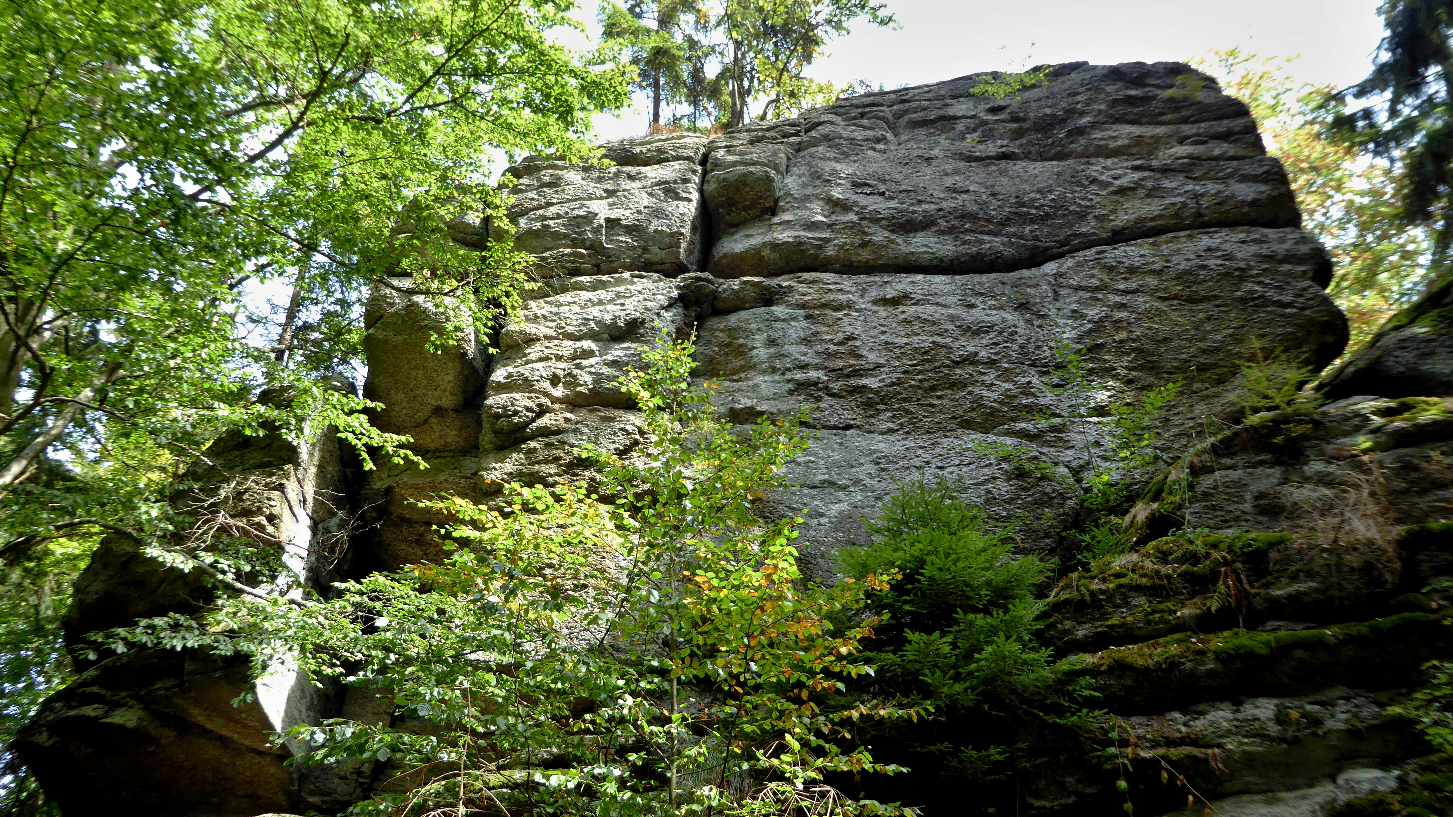 Chateau Tower (765 m above sea level), originally called the "petrified tower", in a group of rocks with the geographical name Petrified Chateau in the geomorphological district "Borovský" Forest. Petrified Chateau is important geological locality, cultural and natural monument of the Czech Republic. It is located in the cadastral area of town Svratka and is part of the Žďár Hills Protected Landscape Area. A blue touristic route of the Czech Tourists Club leads to the group of rocks (in the section: hunting chateau "Karlštejn" – Petrified Chateau – "Milovské Perničky").Photo-location: Czechia, Vysočina Region, the town of Svratka, a group of rocks called Petrified Chateau (azimuth 55°).